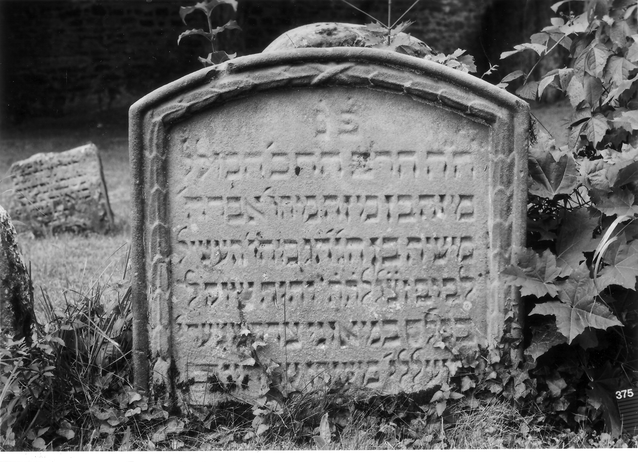 Jewish Cemetery in Trier - Grave No 360 of the Rabi Chaja Lwow Abraham Mosche ben Heschel Lwow died 1788 Great grandfather of Karl Marx